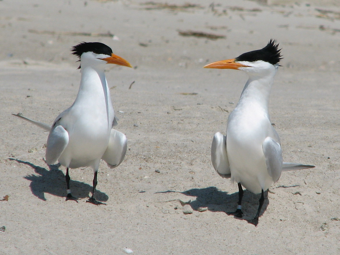 Royal Tern (Thalasseus maxima) at Sunset Beach, North Carolina